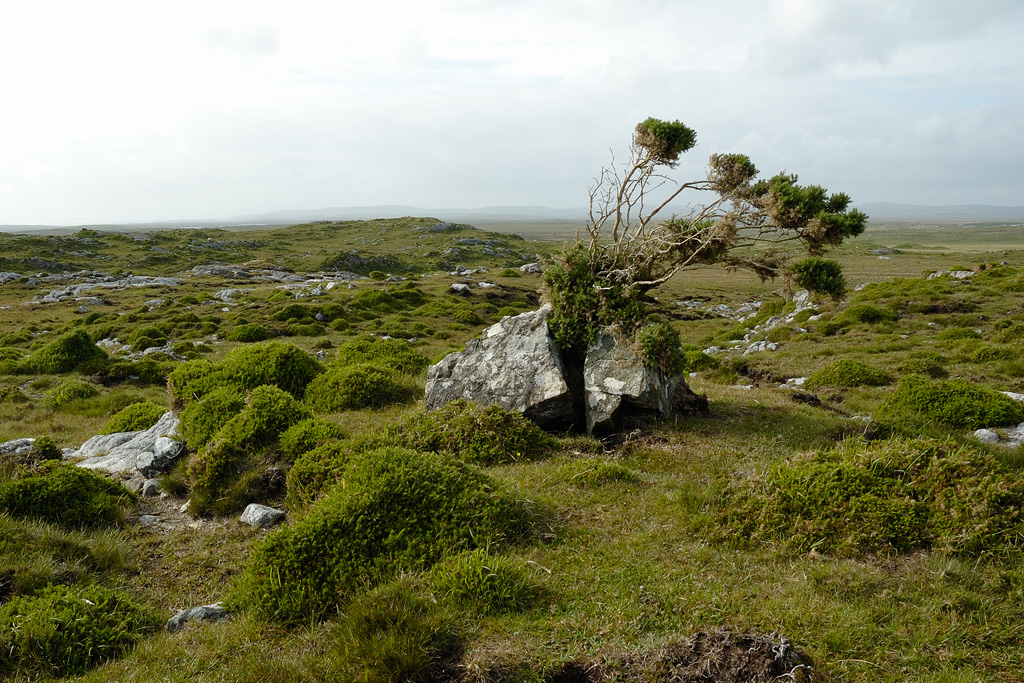 Picture shot in the western part of Connemara, County Galway, Ireland.